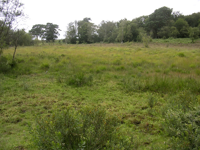 Bog south of Ferny Crofts, New Forest. This bog lies in the valley bottom between Ferny Crofts and Culverley Farm, although it has no specific name on the OS map.